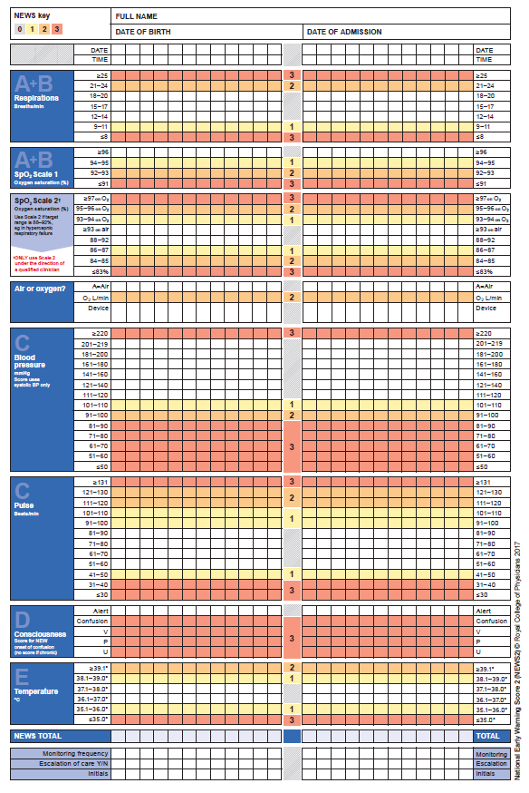 NEWS2 chart, a widely used Early Warning Score chart published by the Royal College of Physicians. Reproduced from: Royal College of Physicians. National Early Warning Score (NEWS) 2: Standardising the assessment of acute-illness severity in the NHS. Updated report of a working party. London: RCP, 2017. URL of relevant page.